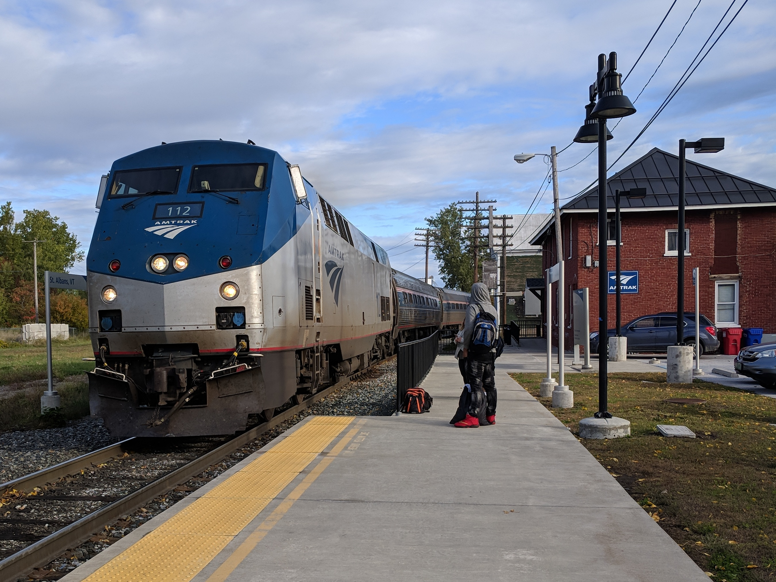 Amtrak #112 leads the southbound Vermonter at the beginning of its run at St. Albans, Vermont in October 2018